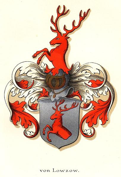 Coat of arms of the von Lowzow family